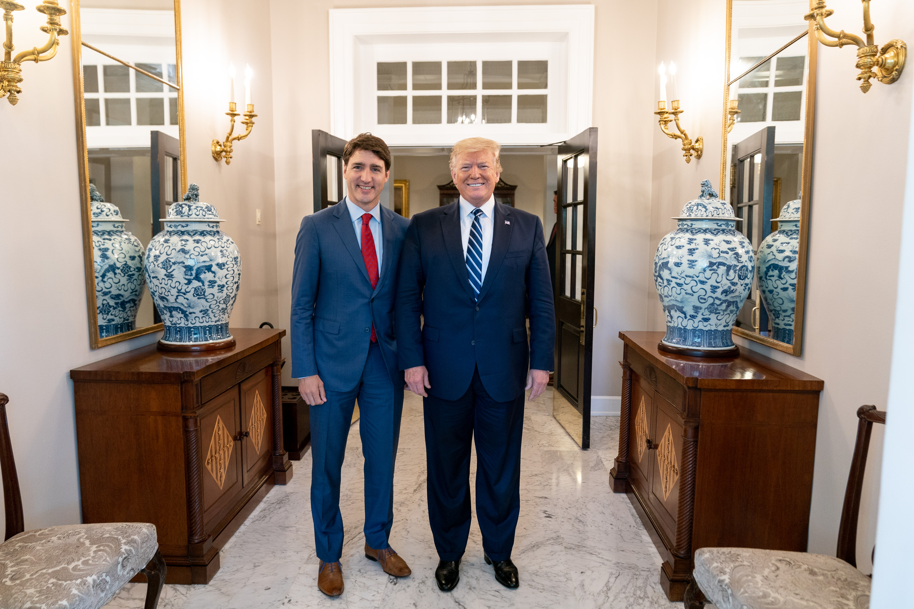 President Donald J. Trump and Canadian Prime Minister Justin Trudeau pose for a photo Thursday, June 20, 2019, as President Trump escorts Prime Minister Trudeau to his vehicle at the West Wing Lobby entrance of the White House.